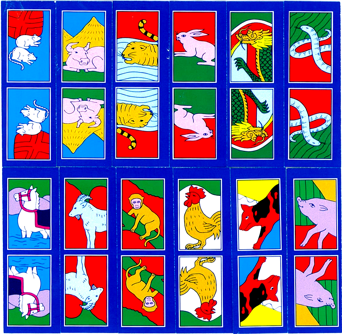 Chinese Zodiac Card Game